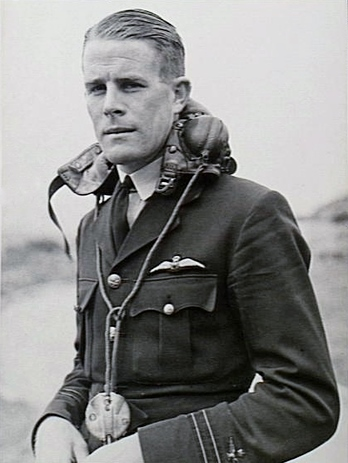 AWM caption: Plymouth, England. C. 1940-07. Portrait of Flight Lieutenant E. B. Courtney, a pilot of No. 10 (Sunderland) Squadron RAAF, based at RAF Station Mount Batten, with RAF Coastal Command.